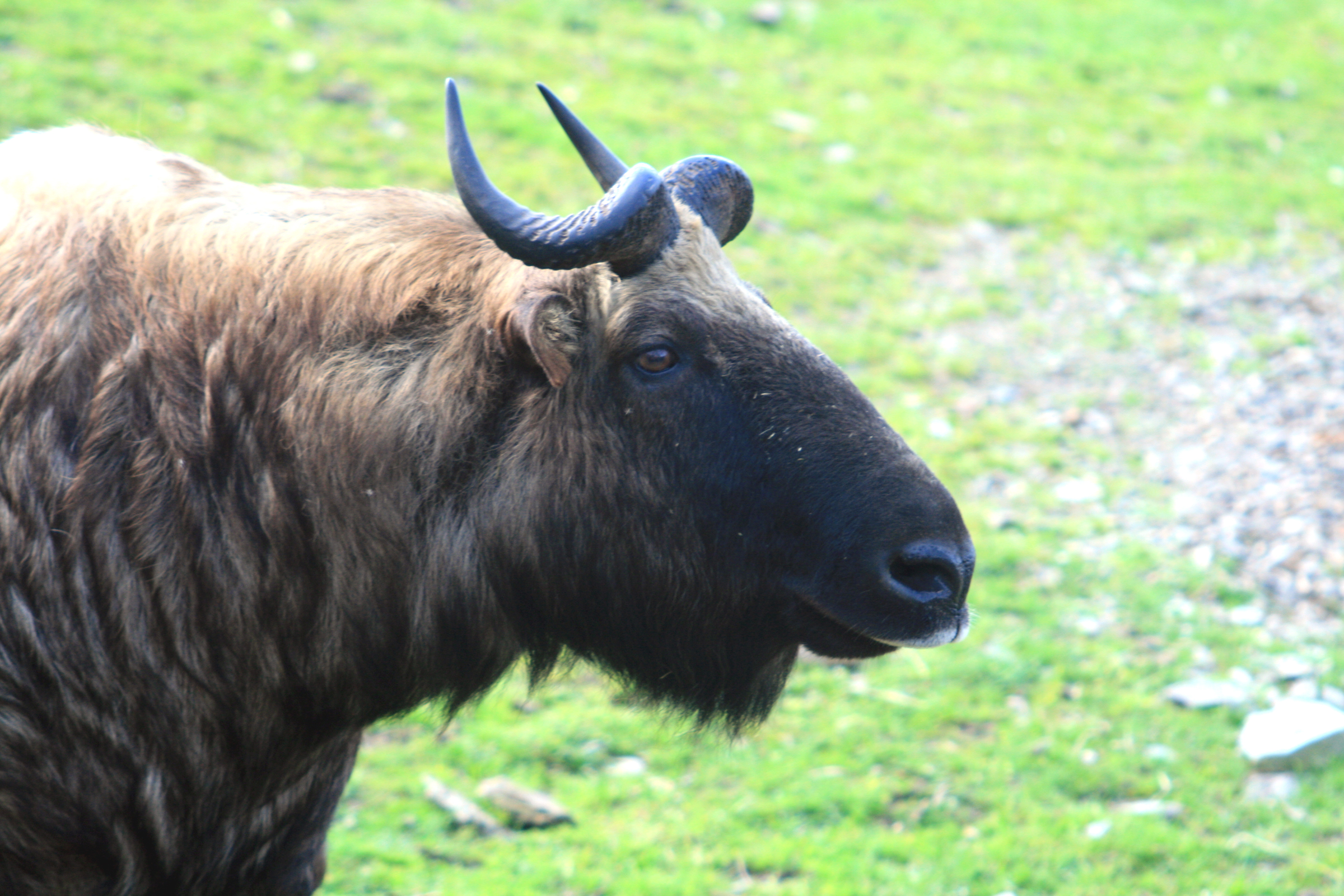 Mishi Takin in ZOO Praha, Czech Republic